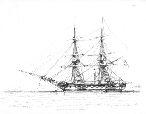 20-gun war brig